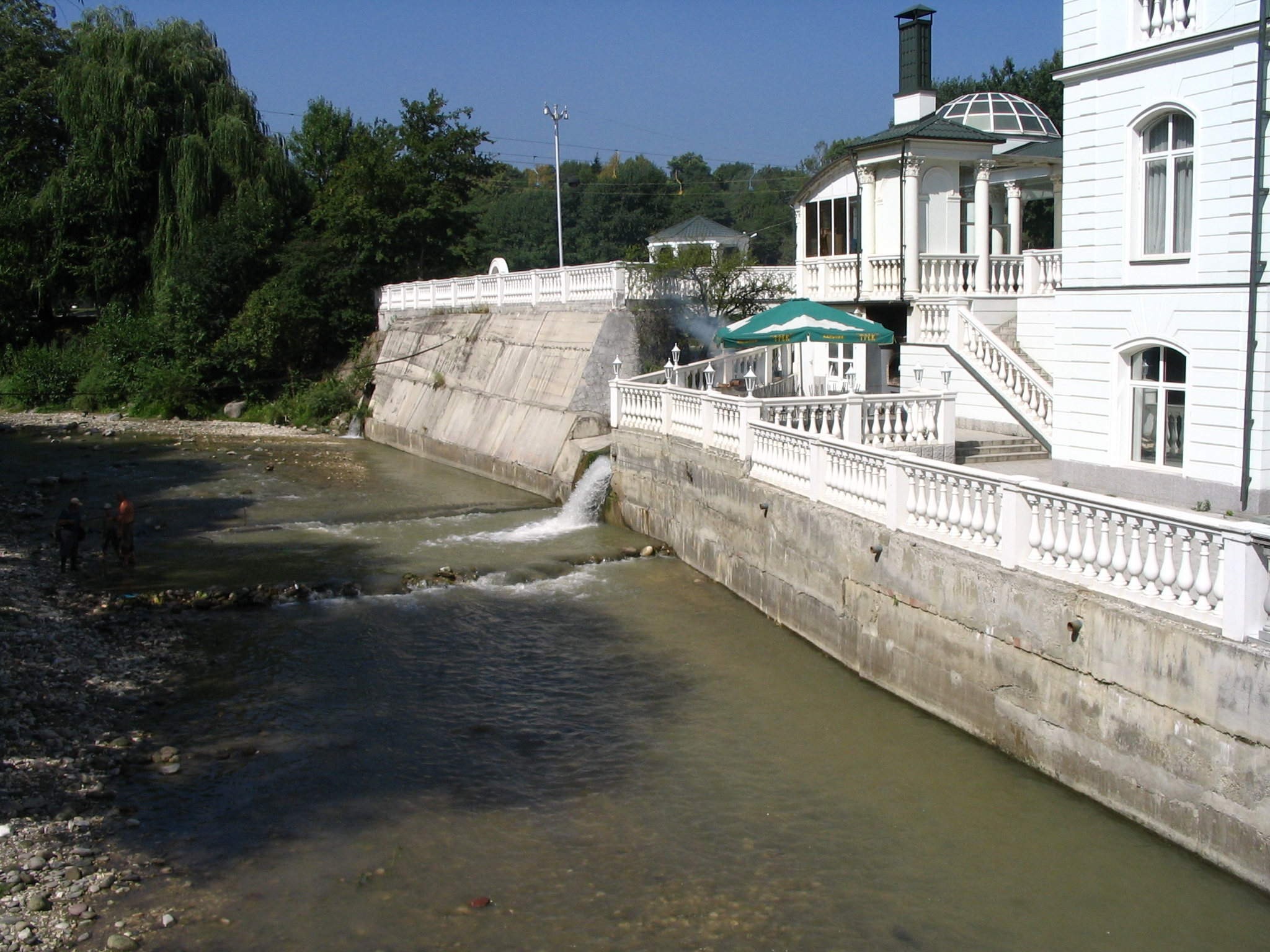 Nalchik